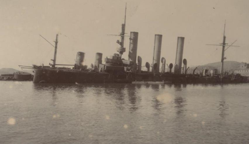 Pallada cruiser in the port of Port Arthur (Russian Empire) (behind it, Pobeda battleship), photographed on January 4 1905 (the day after the Japanese conquested it), as it appeared to Italian Admiral Ernesto Burzagli (1873-1944), Italian naval attaché in Tokio, who sailed from Yokohama (Japan) on a diplomatic mission to Port Arthur, during the Russo-Japanese War. The original picture, scanned by Emiliano Burzagli, belongs to the Private archive of Burzaghi family, Italy.